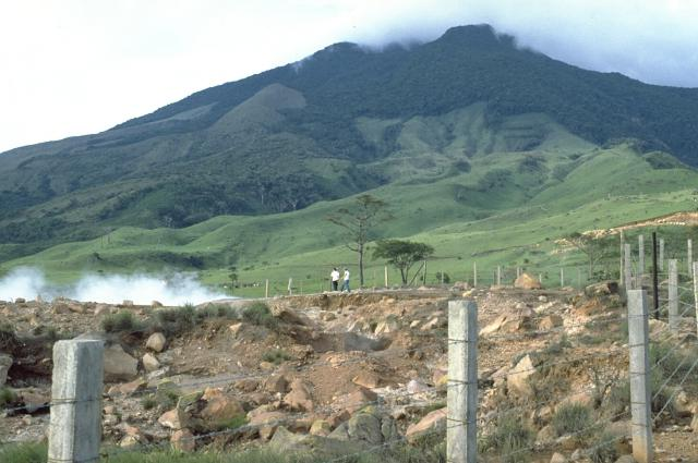 Miravalles volcano rises above a thermal area on its SW flank. The 2028-m-high andesitic stratovolcano is one of five post-caldera cones constructed along a NE-trending line within the Pleistocene 15 x 20 km Miravalles caldera. Morphologically youthful lava flows cover the western and SW flanks of the volcano. The only reported historical eruptive activity was a small steam explosion in 1946, although high heat flow remains, and a producing geothermal field is located within the caldera.